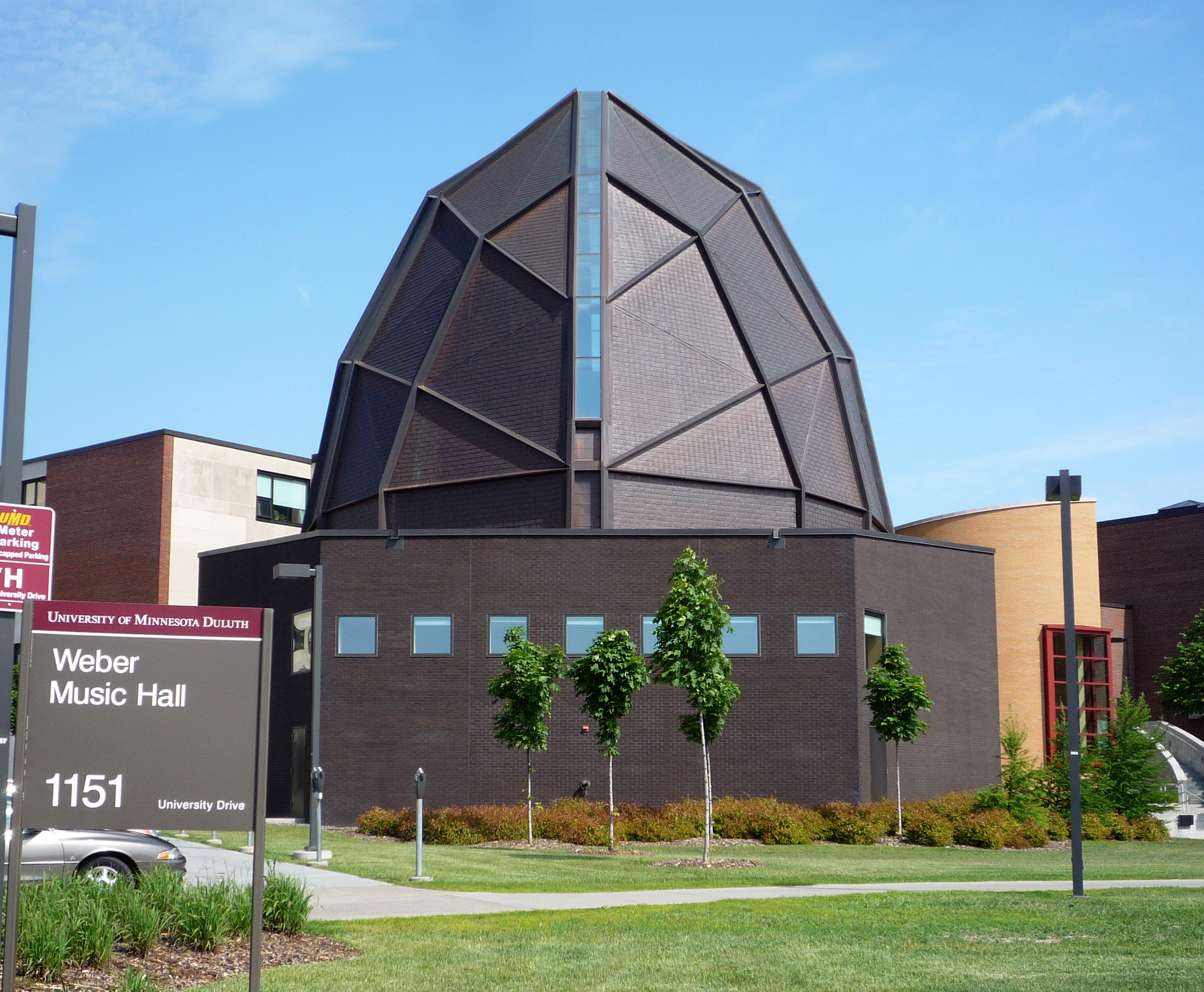 César Pelli's Weber Music Hall, University of Minnesota Duluth, Duluth, Minnesota, USA.